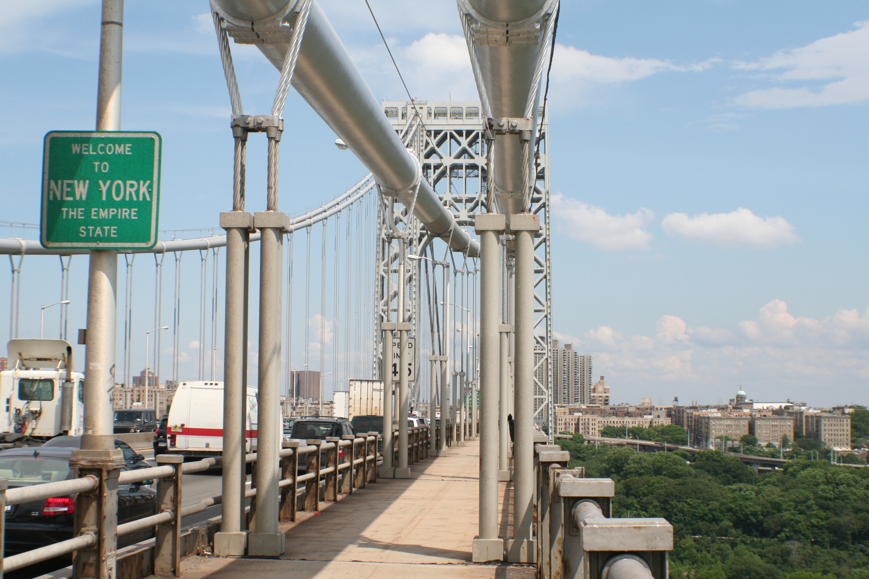 George Washington Bridge welcoming you to New York